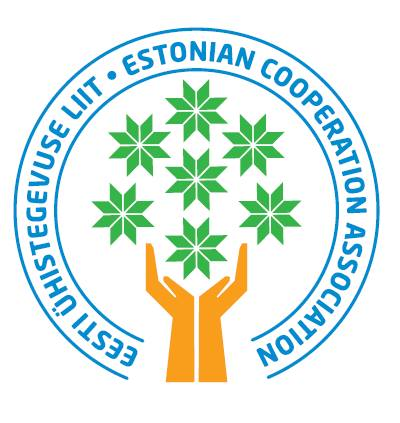 Logo of Estonian Cooperation Association